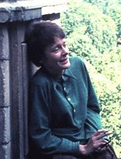 Bibi Nordin ; 1939-1997 ; actress